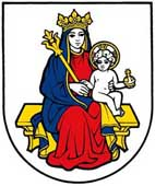 Coat of arms of Šamorín, Slovakia